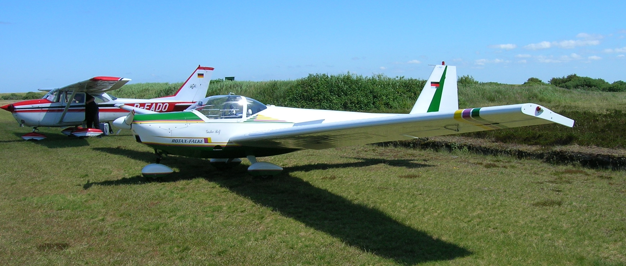 Scheibe SF 25 C Rotax-Falke at Langeoog Airport, Germany